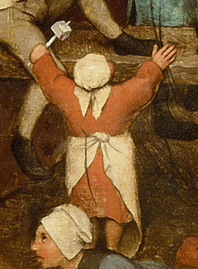 A girl holding a teetotum, a spinning top used in gambling and children's games. Clipping from Pieter Breugel's Children's Games.